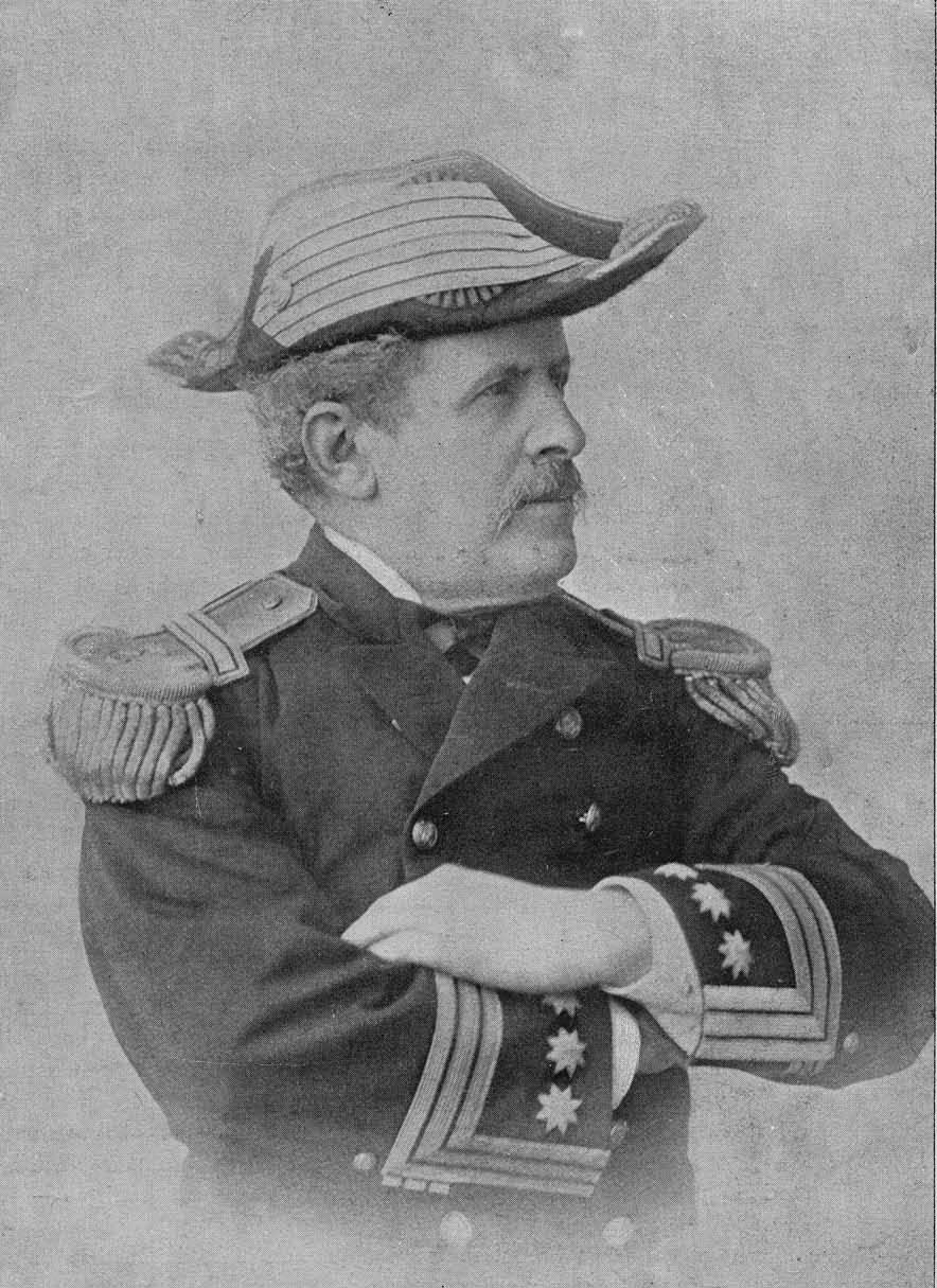 Depicted person: Fernando Villaamil – Spanish travel writer